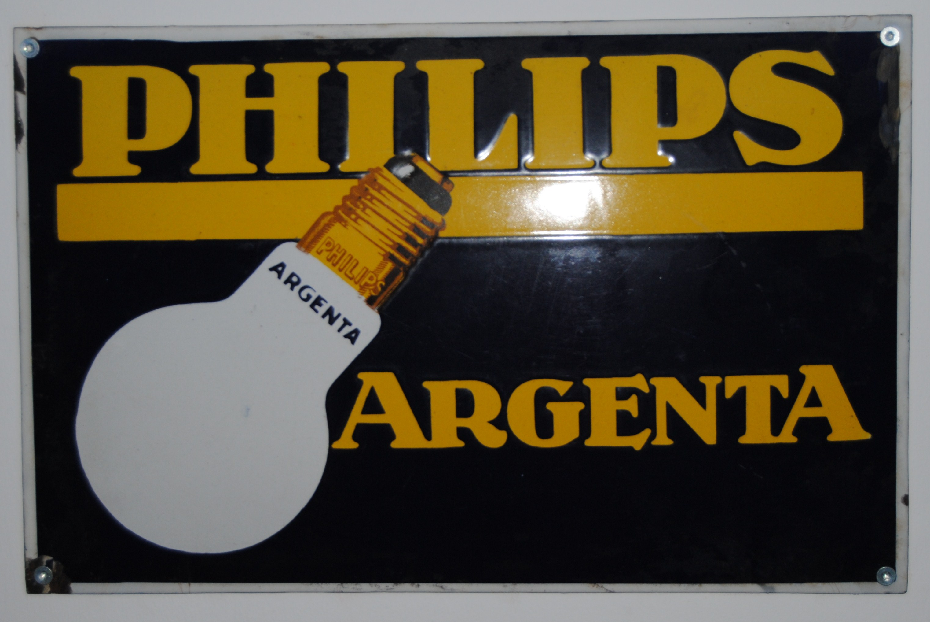 picture taken from commercial affiche